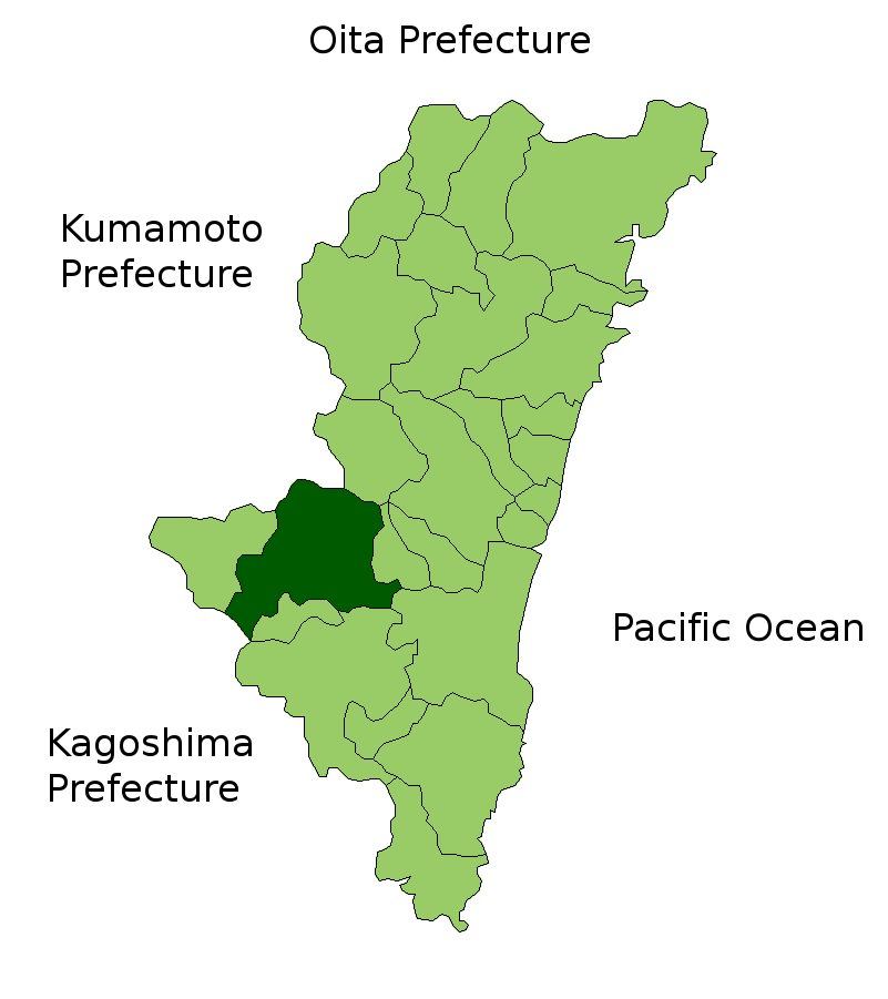 Location Map of Kobayashi in Miyazaki Prefecture, Japan